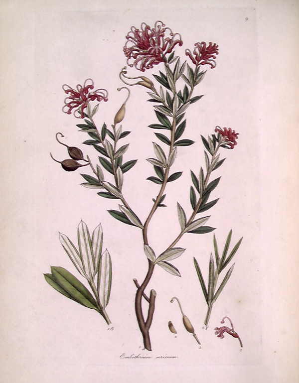 This is an image of a print of a hand coloured engraving by James Sowerby (1757-1822), based on a drawing nominally by John White but probably by the convict artist Thomas Watling. It appeared as Tab. IX in James Edward Smith's 1793 A Specimen of the Botany of New Holland. The plant depicted was then known as Embothrium sericeum, and was divided into three varieties: α = minor, β = major and γ = angustifolia. These are now known as Grevillea sericea, Grevillea speciosa and Grevillea linearifolia respectively. The accompanying text explains the figure thus: 1. A branch of var. α 2. A Flower. 3. Half-ripe Fruit. 4. A Seed. 5. Leaves of var. β. 6. Ditto of γ.